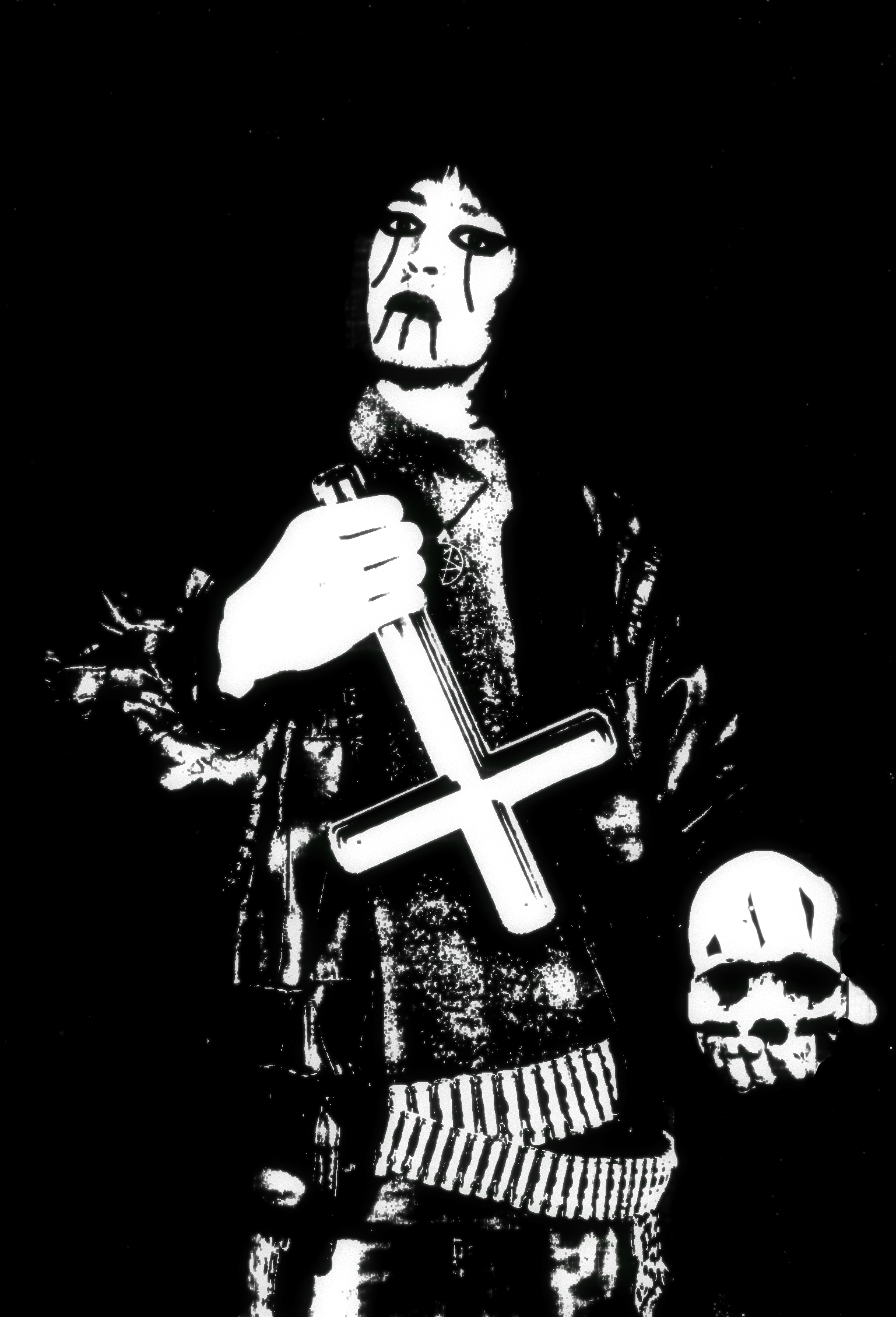 Count Nokturvras